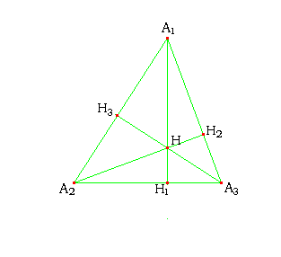 Triangle with three altitudes. Arms and orthocenter marked with H1, H2, H3 and H.